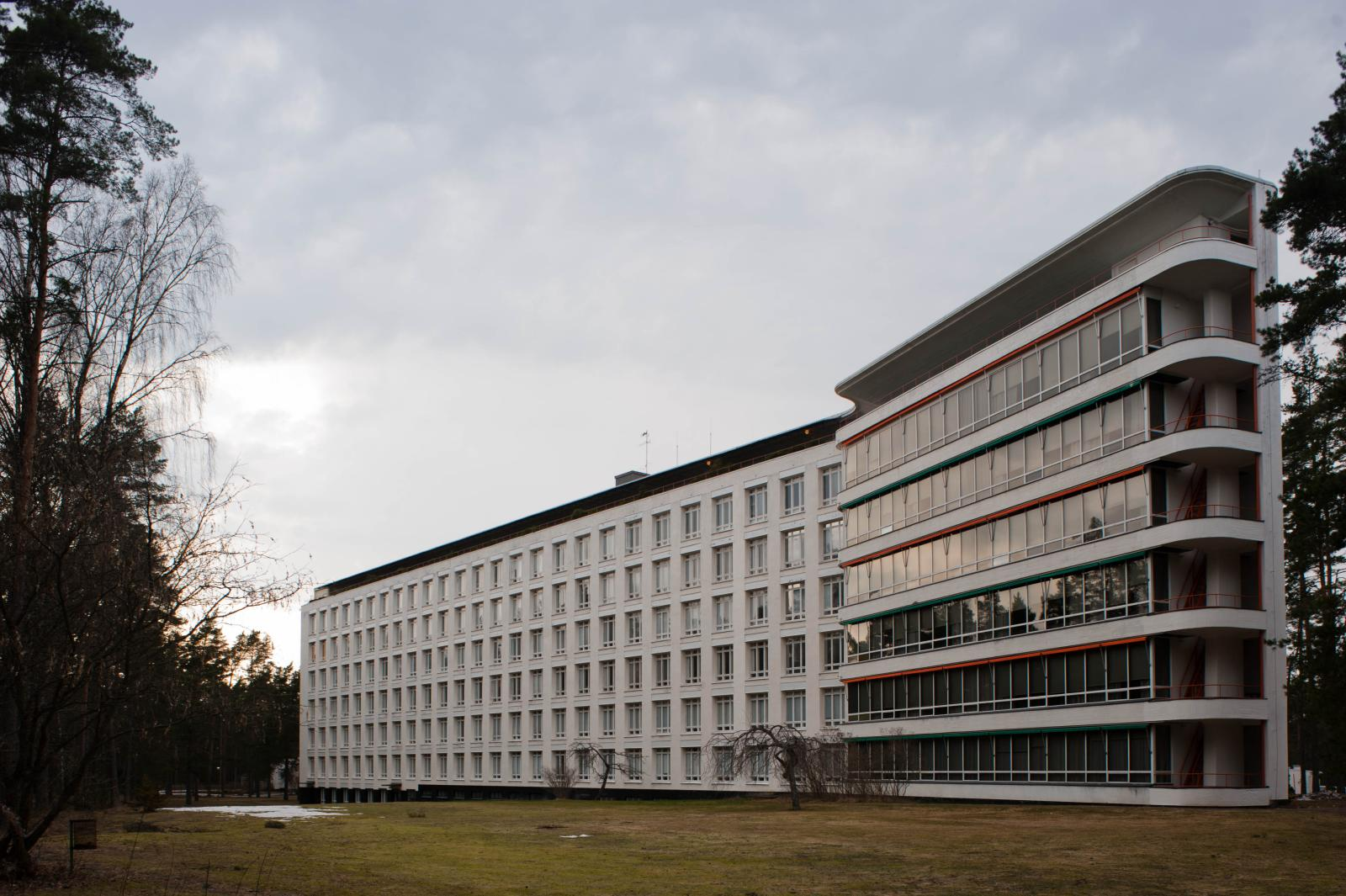 Paimio Sanatorium by Alvar Aalto in Finland